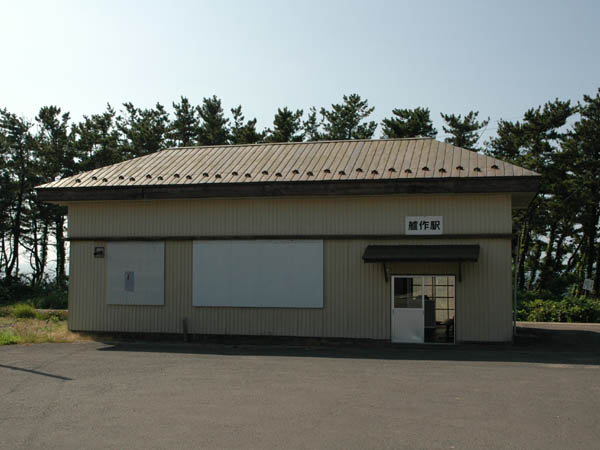 Henashi Station on the JR Gono Line, in Fukaura, Aomori